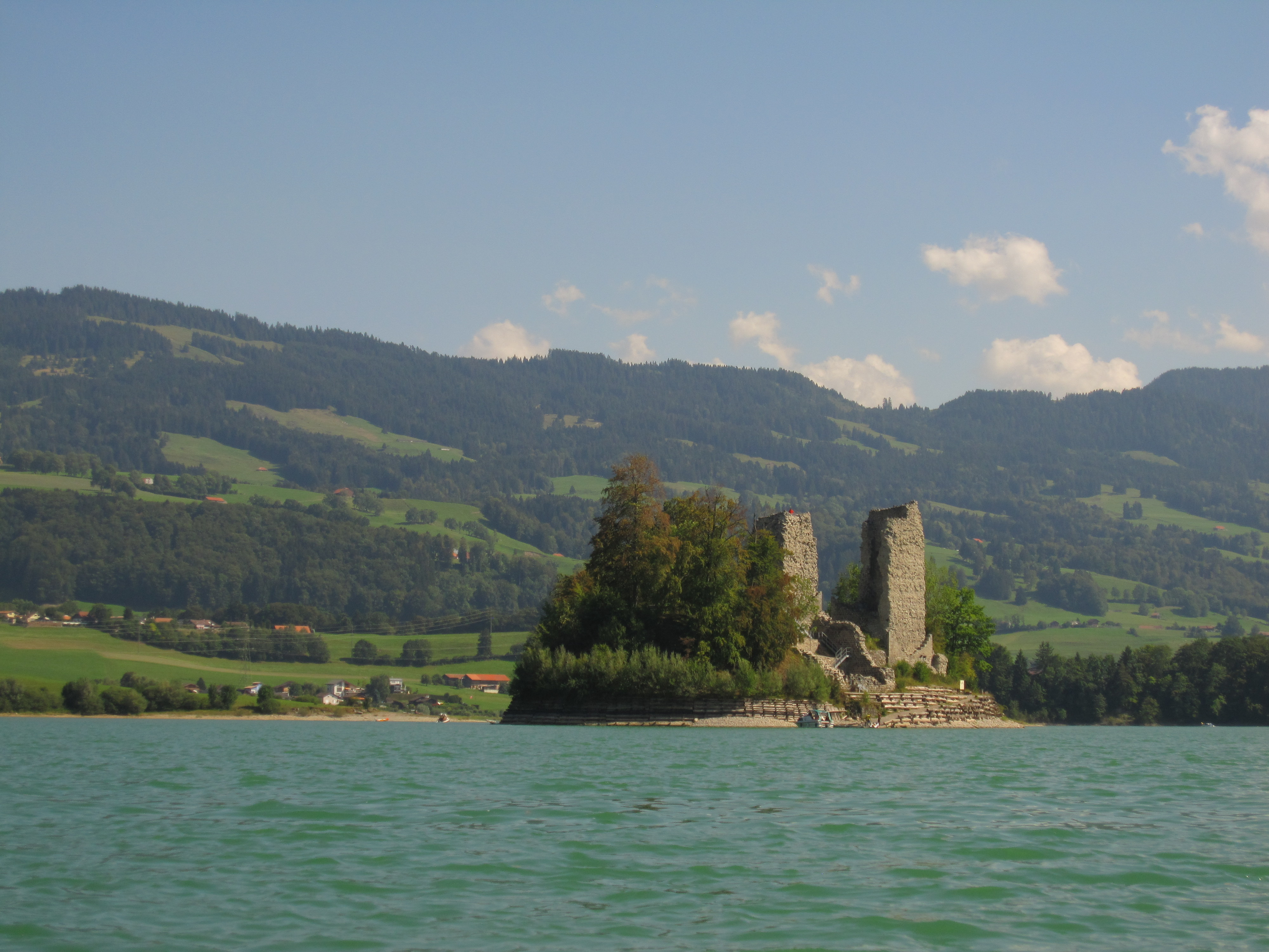 taken at Ogoz island